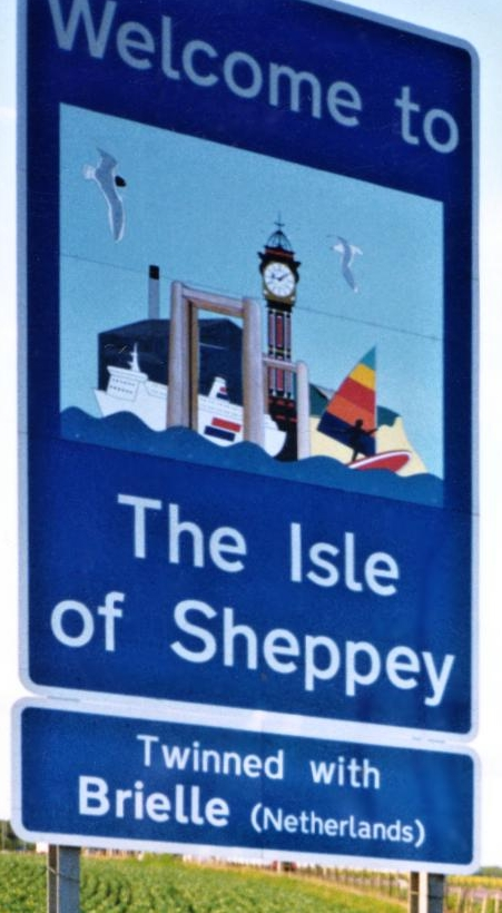 The Isle of Sheppey, Kent, England.